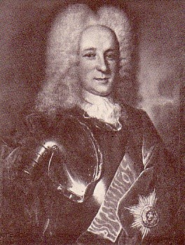 Painting of Count Ferdinand Anton Danneskiold-Laurvig